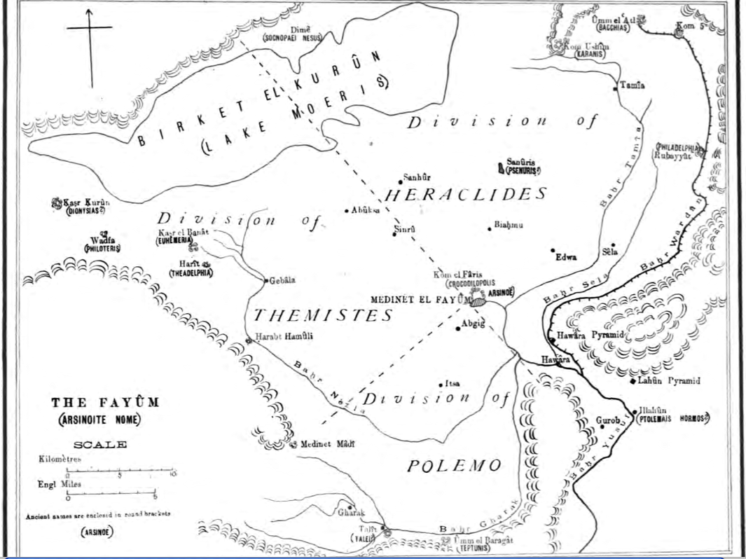 Map of 1895 excavations of Fayum in Egypt